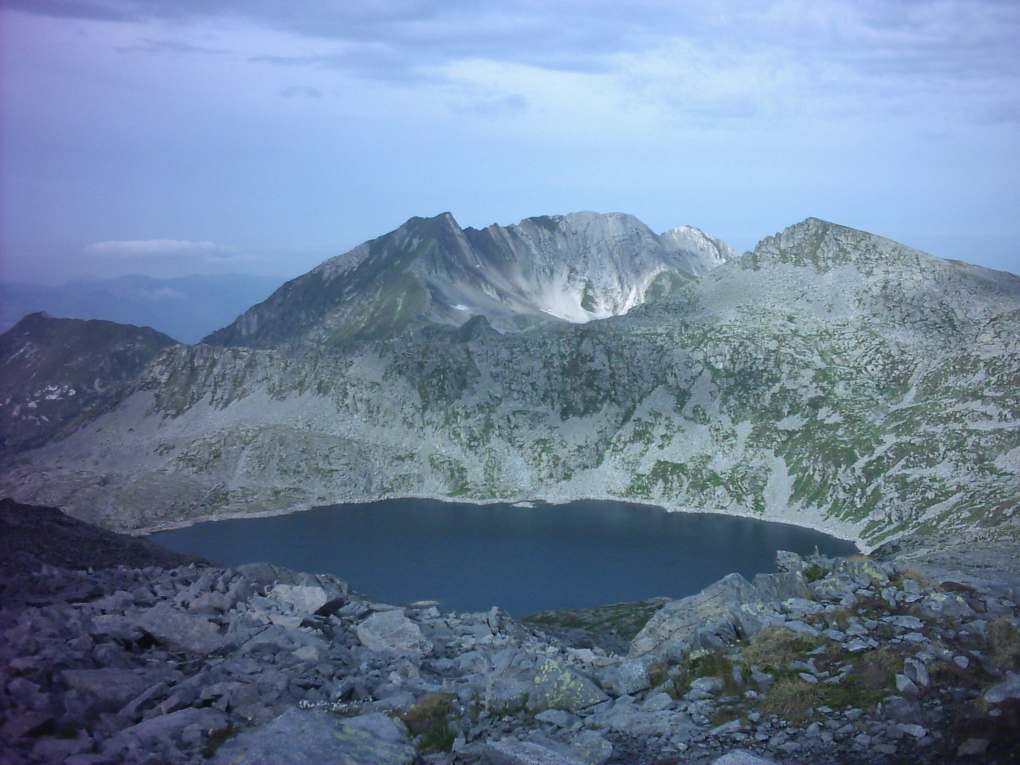 Lago della Vacca (Cow's Lake) at 2358 mt. above sea level, in the southern part of Adamello mountains, Lombardy. The mountains on the background are Mount Frerone (2673 mt.) and Terre Fredde peak (2645 mt.).